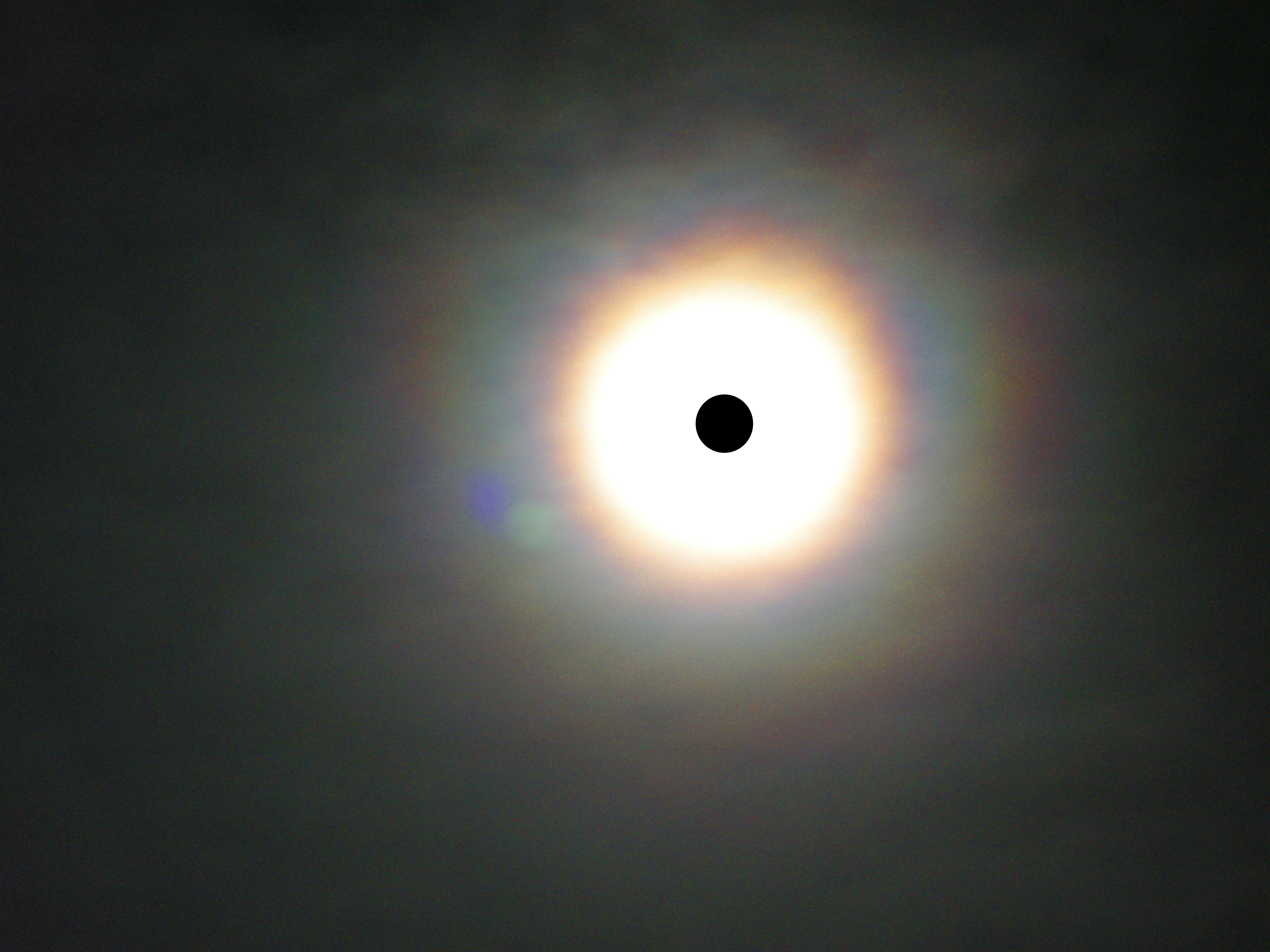 Corona around the moon. The moon itself is copied from another picture - taken at the same time under the same conditions - and pasted in the photograph. It is colored black to be visible.